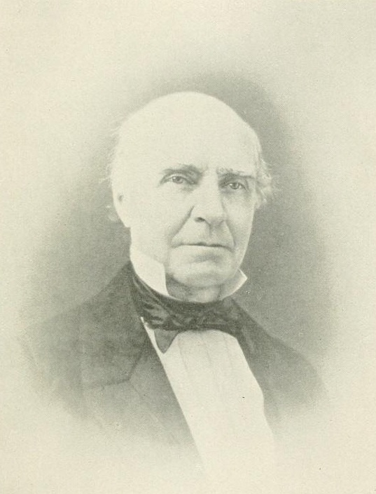 Portrait of New York secretary of state Nathaniel S. Benton